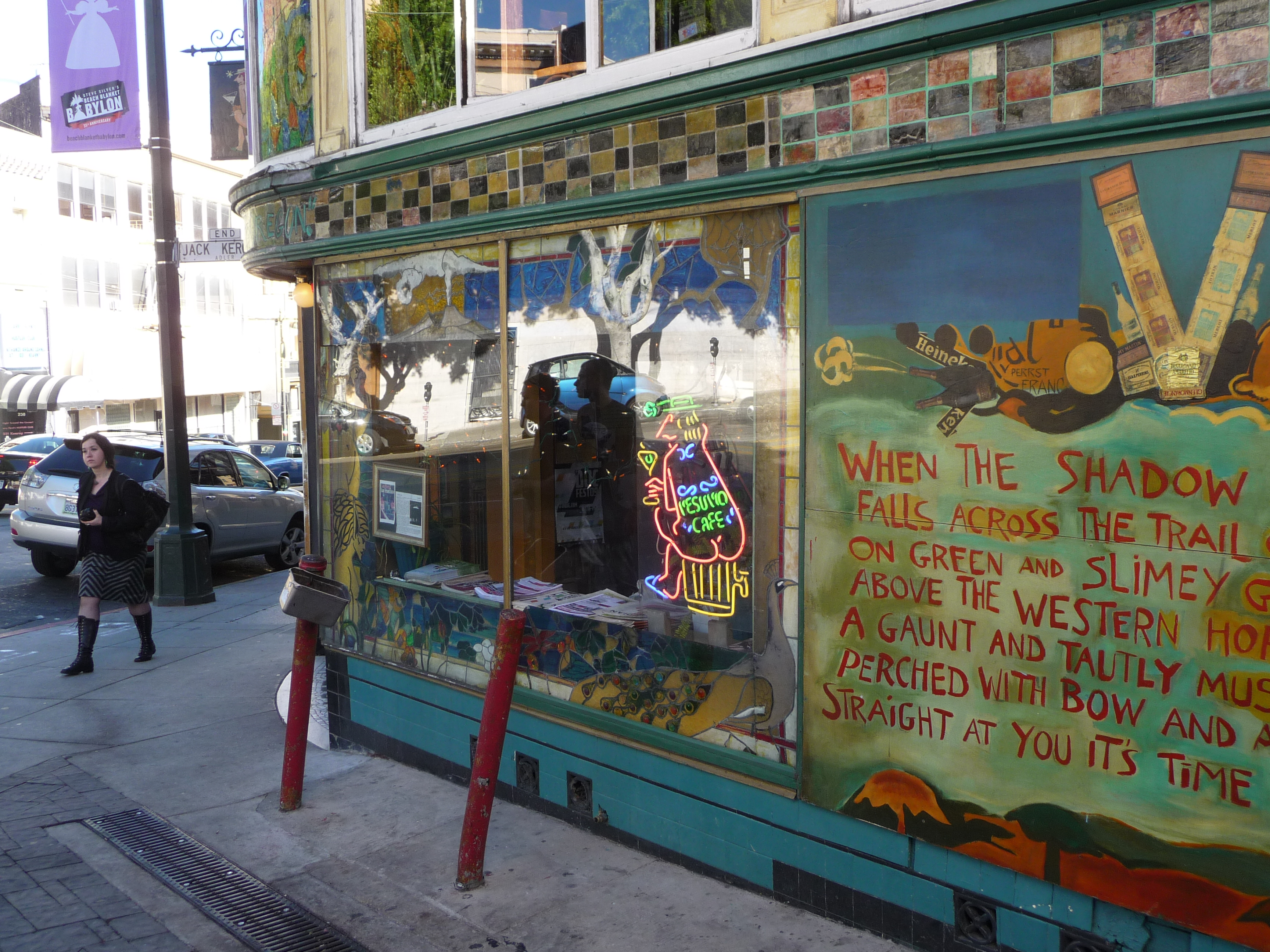 Mural and entrance to Vesuvio Cafe in North Beach, San Francisco.